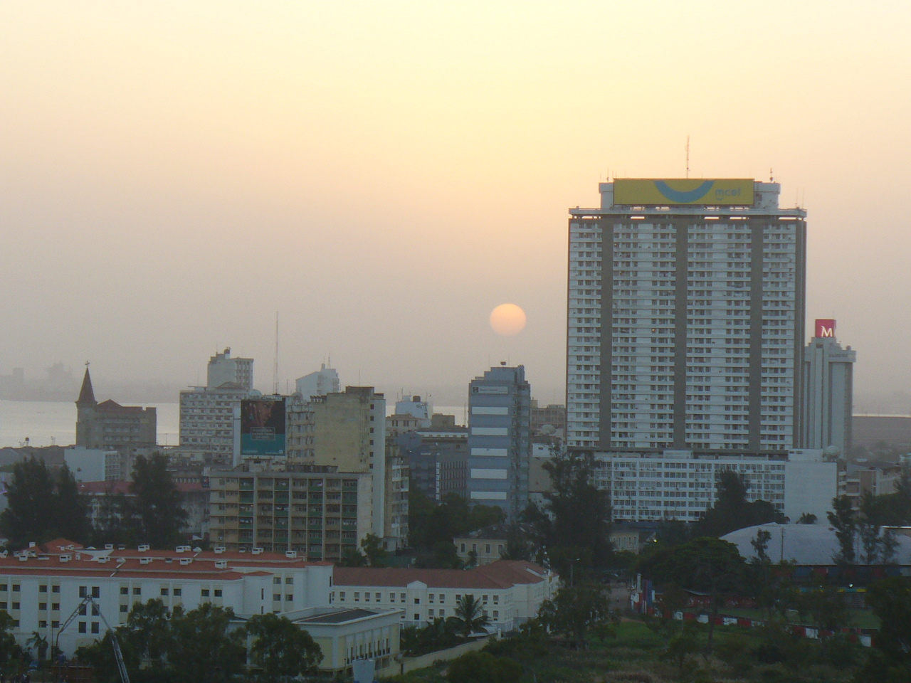 Sunset in Maputo, Mozamique. You can see the 33 Andares building in the foreground.